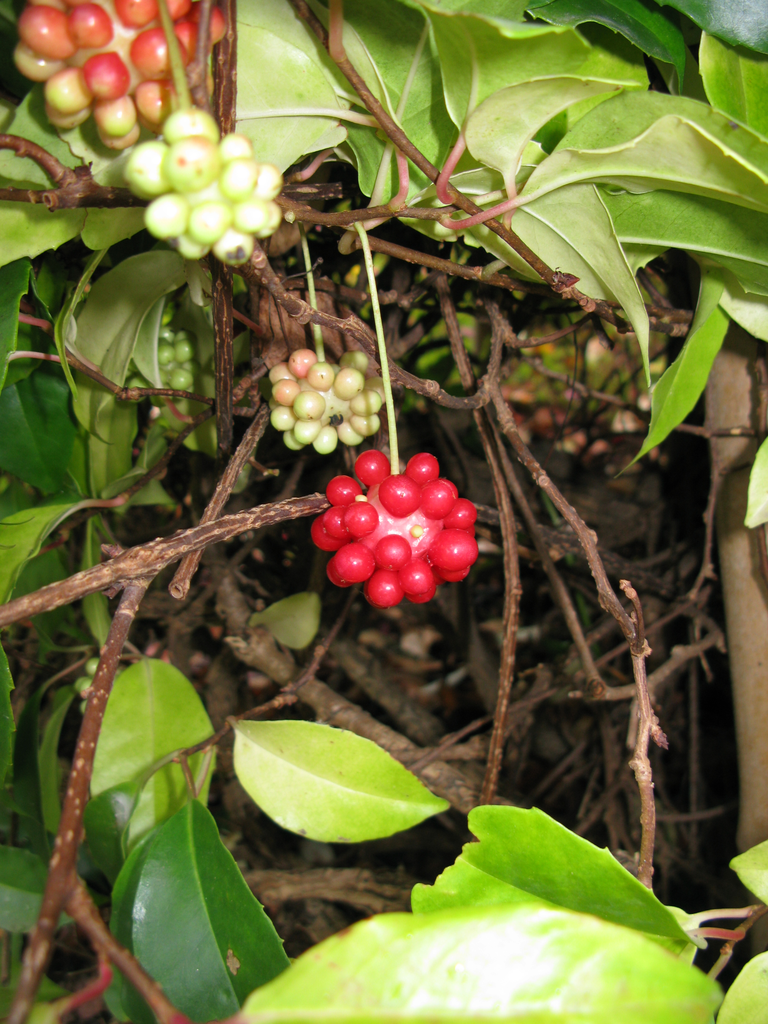 Kadsura japonica, Aizu Matsudaira's Royal Garden, Fukushima pref., Japan